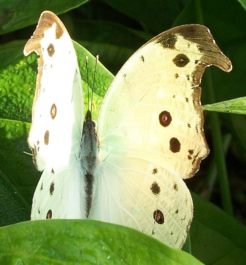 Protogoniomorpha parhassus aethiops at Umdoni Bird Sanctuary, South Africa.